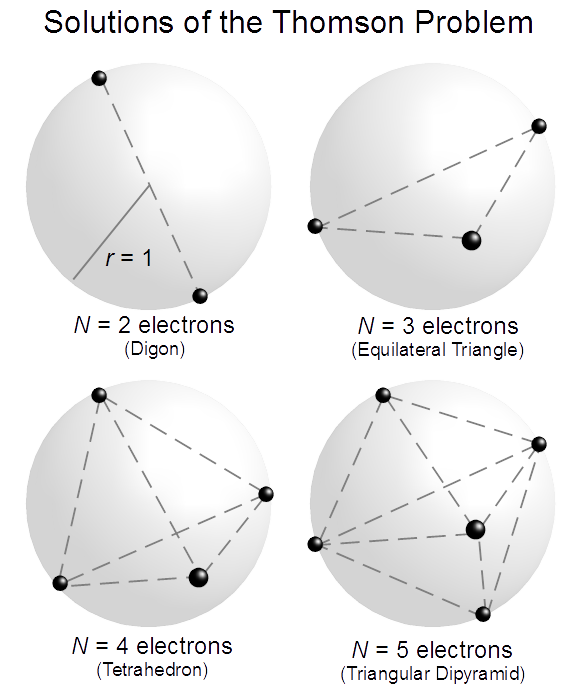 Schematic representation of the N = 2 - 5 electron solutions of the mathematical Thomson Problem.